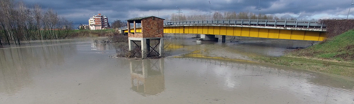 La piena del Reno passa per Cento